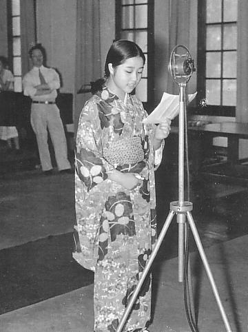 Masako Toyoda in 1937